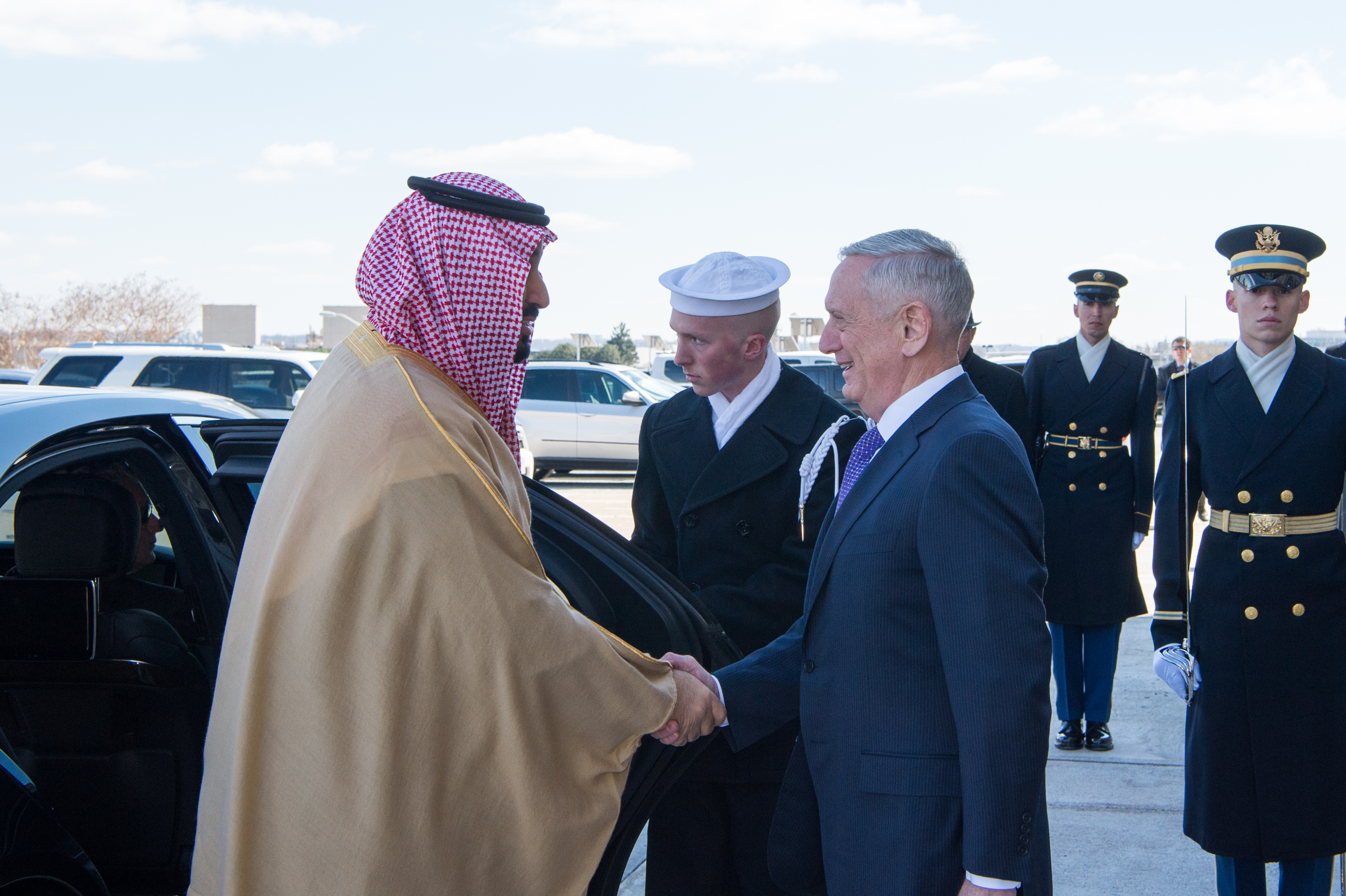 Defense Secretary Jim Mattis greets Deputy Crown Price of Saudi Arabia Mohammad bin Salman Al Saud during an honor guard ceremony at the Pentagon in Washington, D.C., Mar. 16, 2017. (DOD photo by Sgt. Amber I. Smith)